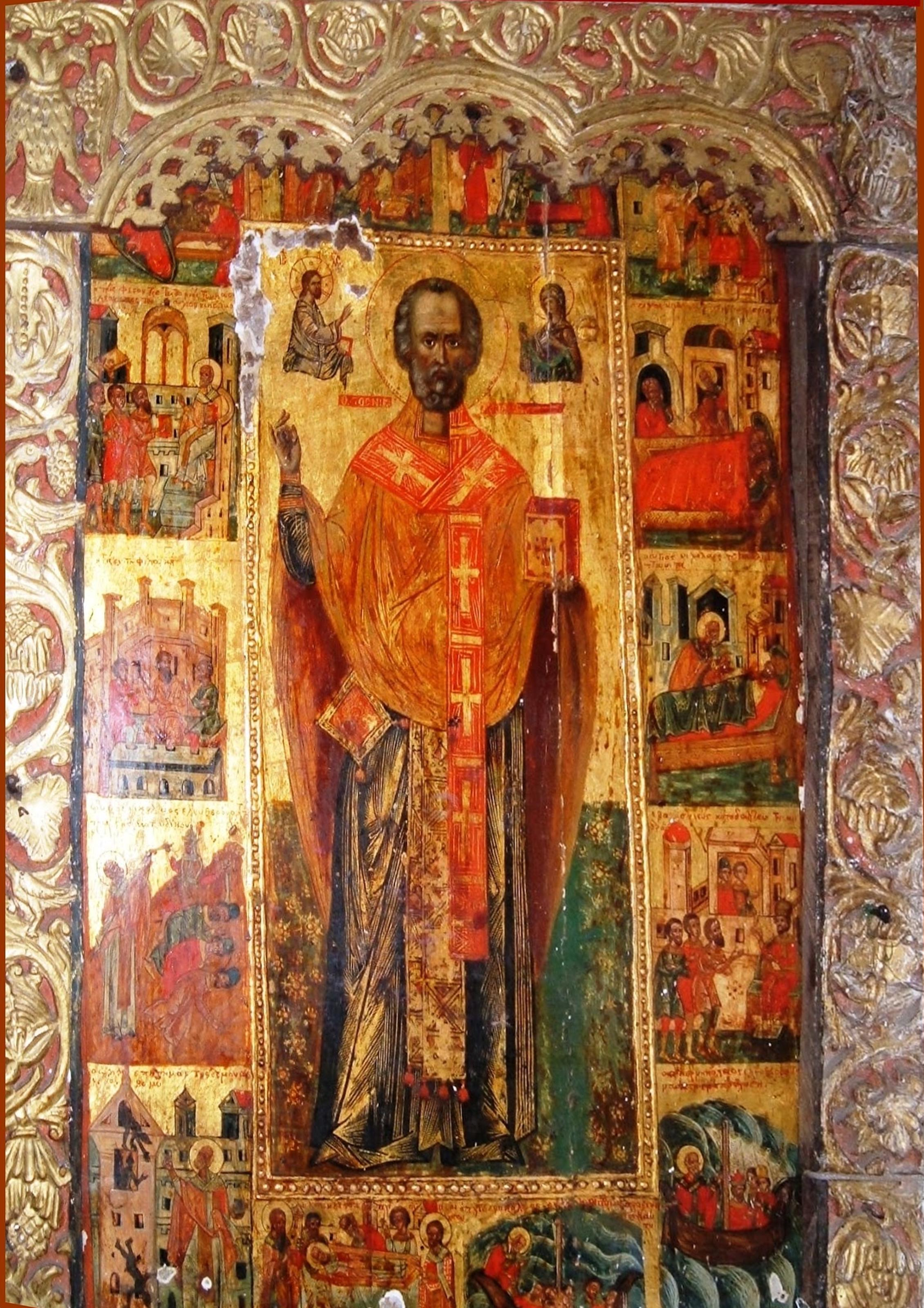 Saint Nicholas of Theologia Church Saint Nicholas Icon with Scenes from his Life